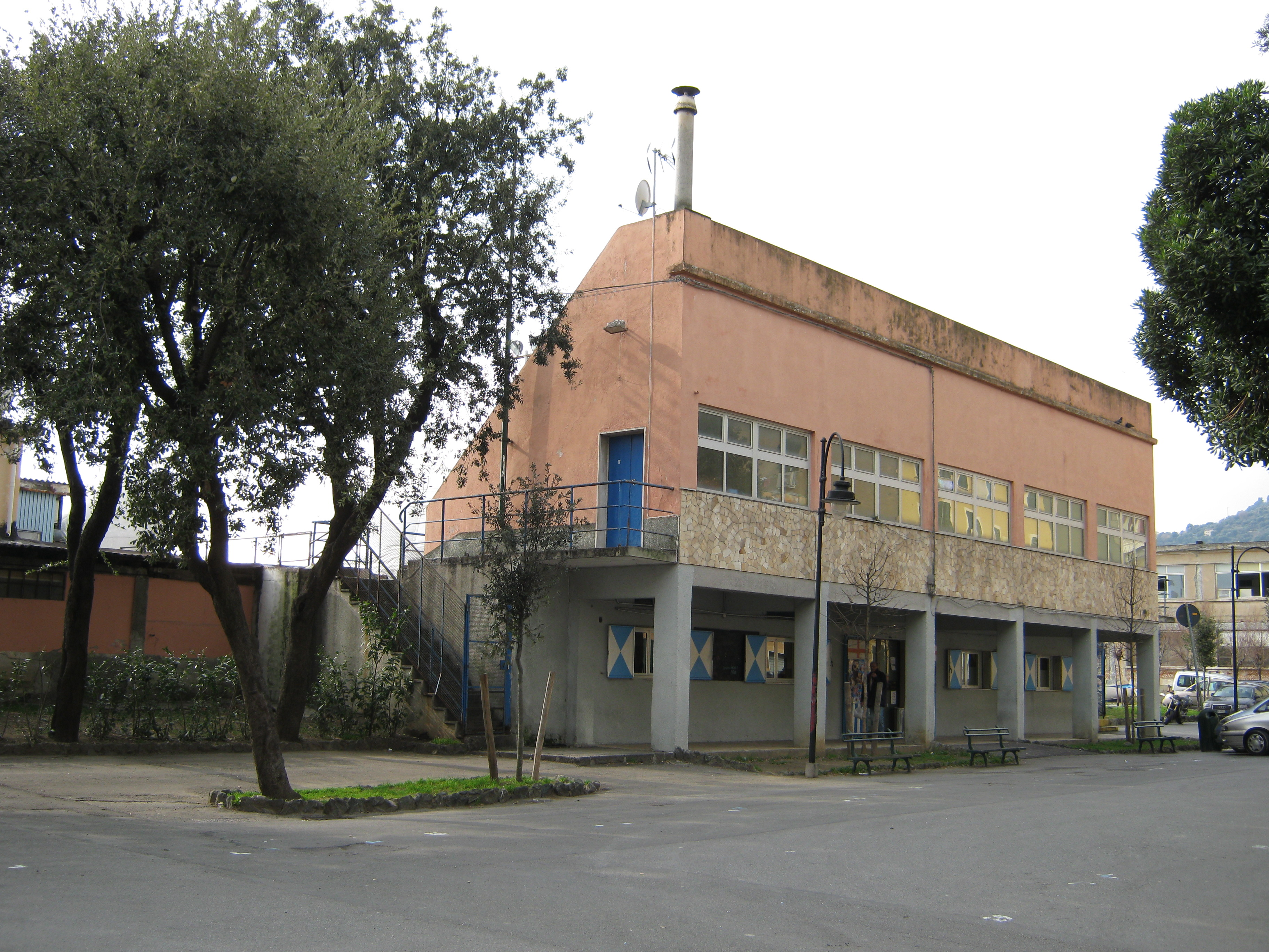 Swimming pool of Voltri